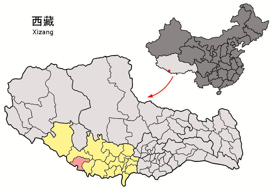 Location of Gyirong County (pink) and Xigazê Prefecture (yellow) within Tibet (Xizang) autonomous region of China